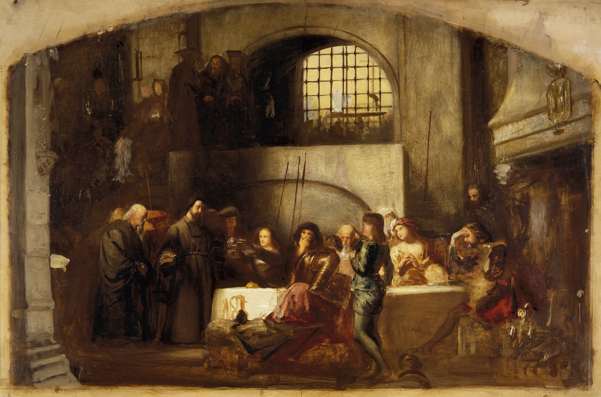 Duncan, Thomas; George Wishart Administering the Sacrament in the Prison of the Castle of St Andrews on the Day of his Execution, 1 March 1546; Perth & Kinross Council